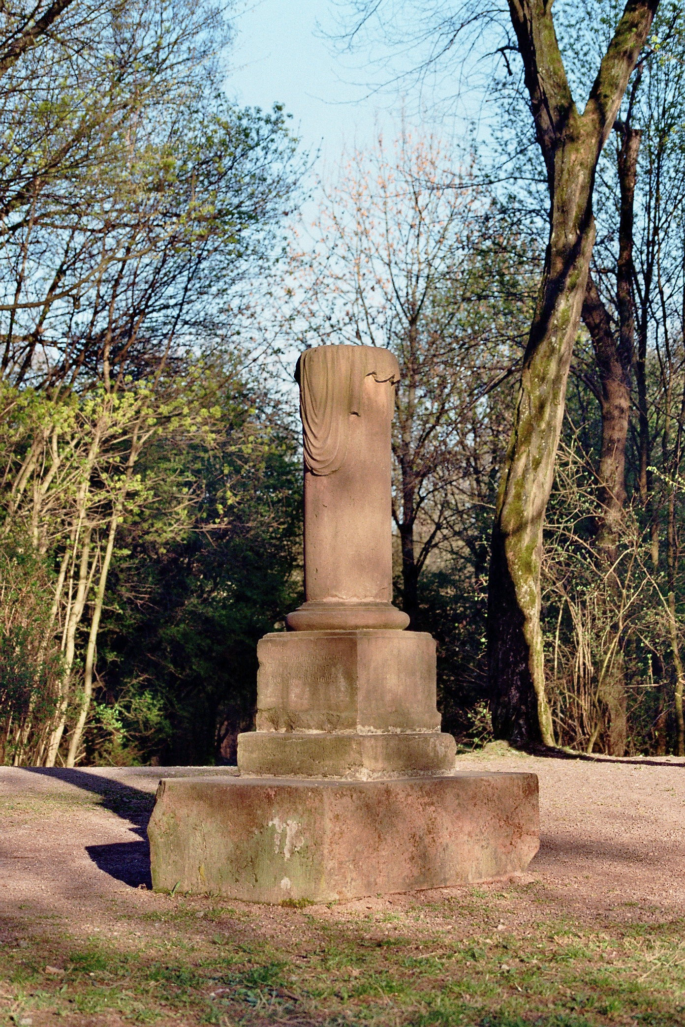 Monument for Freiherr von Andrian in Fasanerie park of Aschaffenburg / Bavaria (Germany)